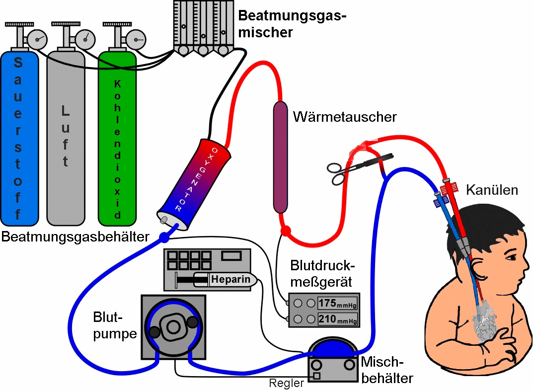 Ecmo schema, to provide extracorporeal oxygenation